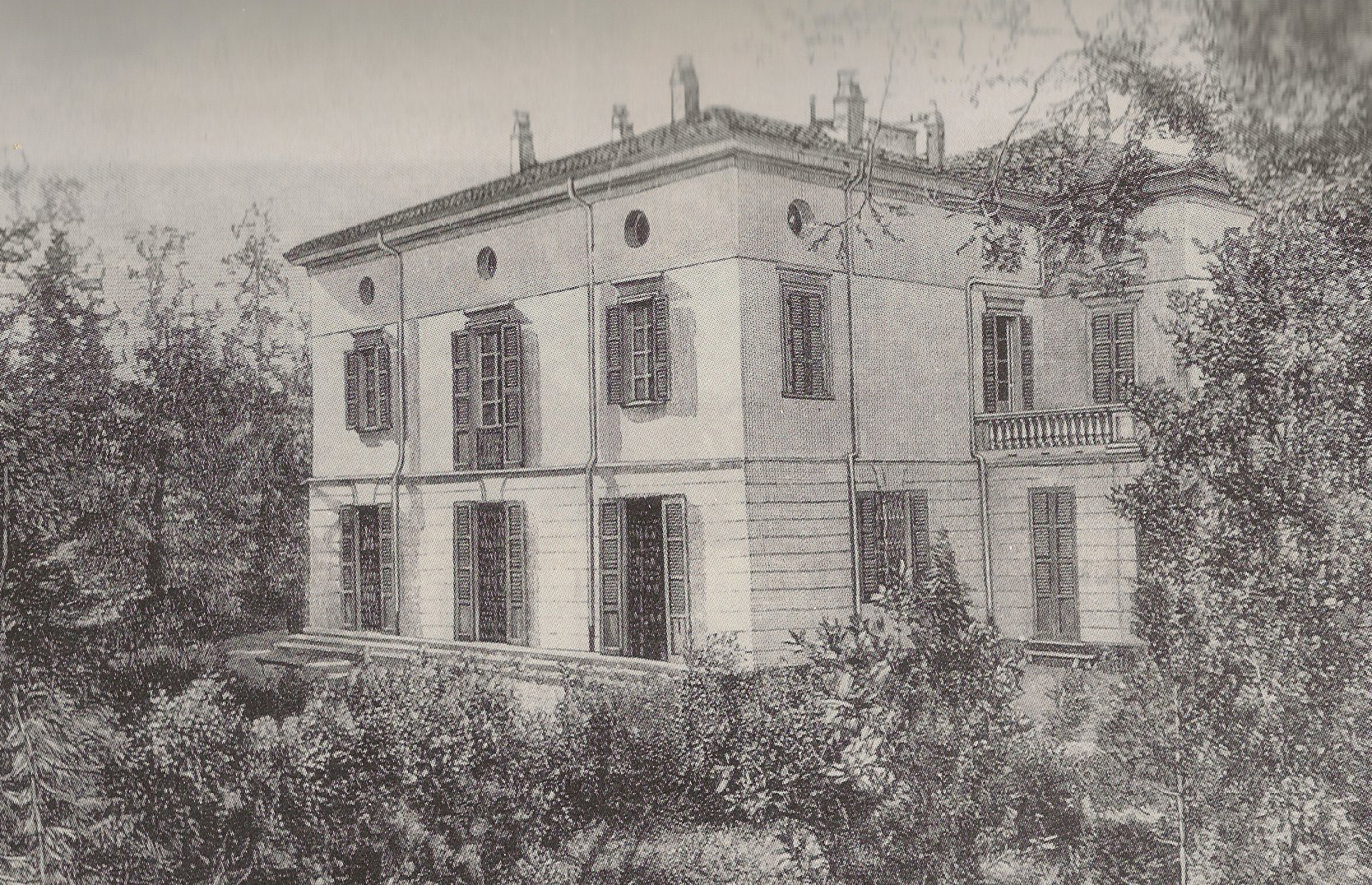 Villa Verdi at Sant'Agata-as it looked in the years 1859-65